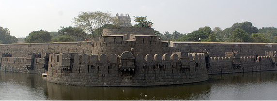 One of the monuments of Vellore is the fort and its exact date of construction could not be established, in the absence of proper records. A very close examination of the stone inscriptions suggests that the fort in all probability might have been built during the rule of Chinna Bommi Nayak (1526 to 1595A. D) . The fort is one of the most perfect specimens of Military architecture in S.India. The Jalakandeswarar Temple inside the fort is very fine example of Vijayanagar architecture. The Kalyana mantap, on the left of the entrance, with intricate caring and delicacy of exaction, bears testimony to the engineering marble and advanced state of sculpture of the times. Another land mark that has put Vellore on the center stage of Medical world is the Christian Medical College Hospital. Dr . IDA Scudder, the American lady, with a missionary zeal, started her Medical work in 1900 A.D. by setting up a very small Hospital, which in the last hundred years has grown into a premier Medical Institution of international repute. The central prison in Vellore , set up in 1830 A.D. is another historically important land mark as some eminent personalities and freedom fighters like sri Rajaji, Thiru C.N. Annadurai, Thiru. K. Kamaraj , the former presidents of India Thiru. V.V.Giri, Thiru. R.Venkataraman had served their prison terms here. The other note worthy monuments are the Mausoleums located in Aruganthampoodi area on the Vellore - Arcot road, where the family members of Tippu Sultan were buried. And the Muthu mandapam on the banks of river of palar, a memorial raised by the Tamil Nadu Government to honor Vikarama Raja Singha , the last Tamil King who ruled Kandy (Srilanka ) from 1798 to 1815 A.D. He was imprisoned by the British in Vellore fort for 17 years.